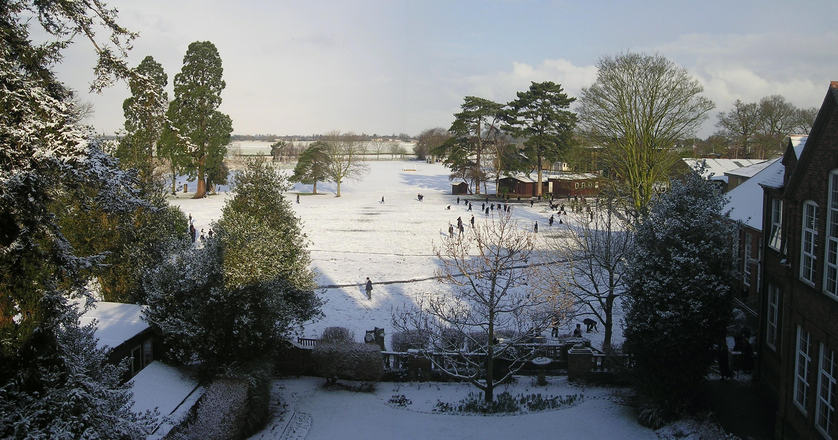 Photograph taken circa 2004-5 from the "top of the house" at Wisbech Grammar School after a mild snowfall.